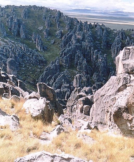 Rock Forest Panoram